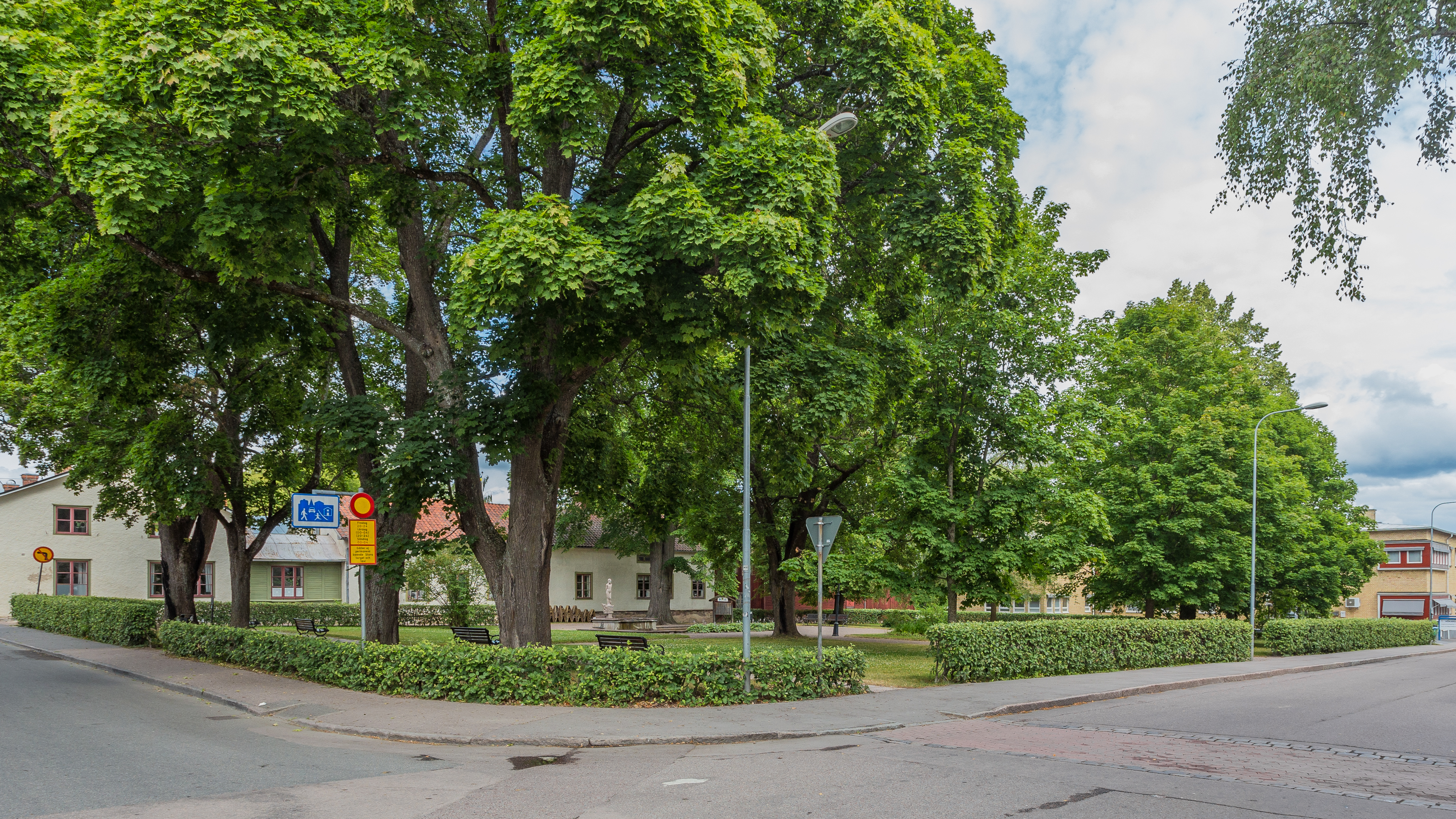 Park Myntparken, Hedemora, Dalarna county, Sweden